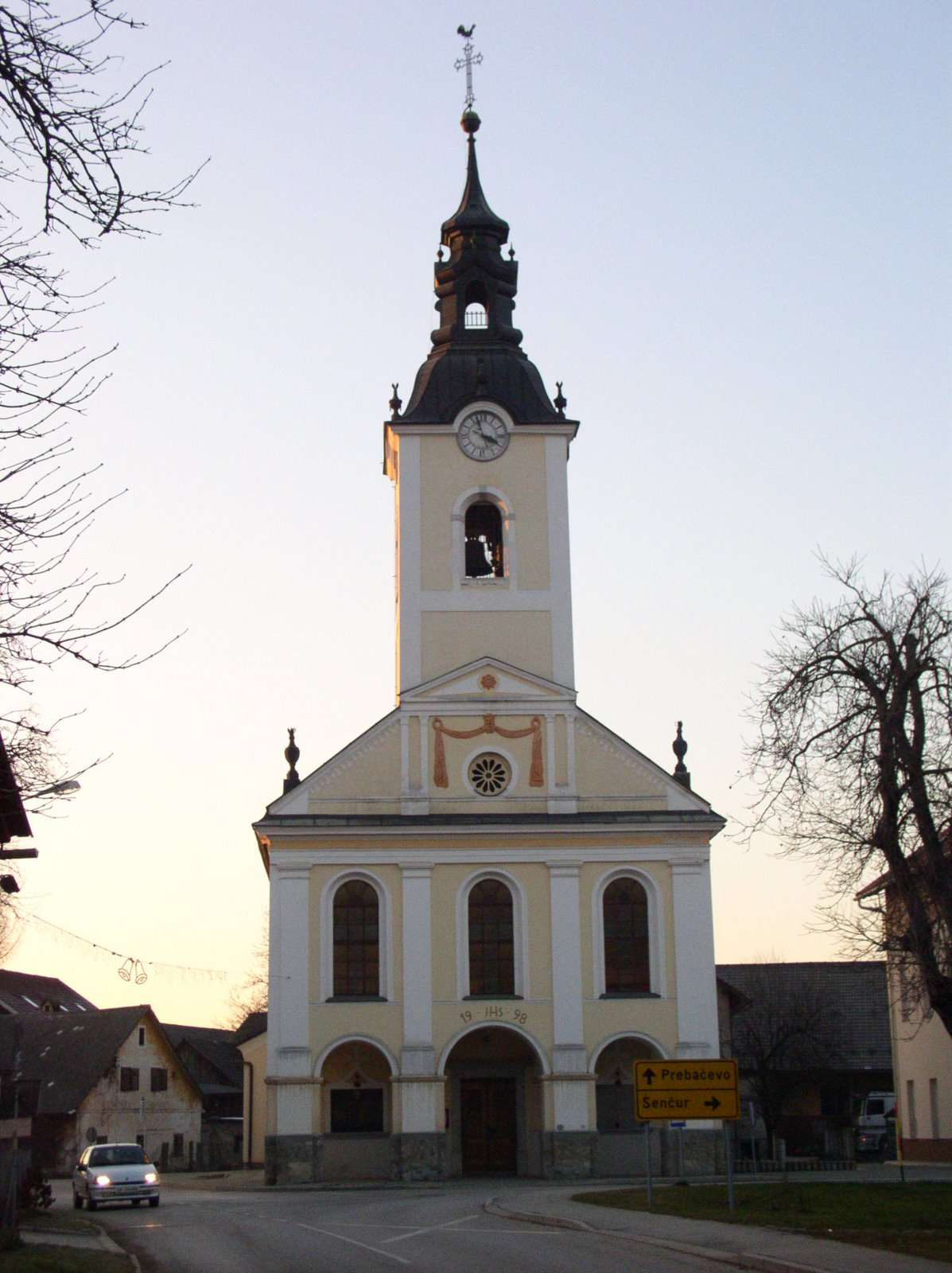 Saint Bartholomew church, Voklo